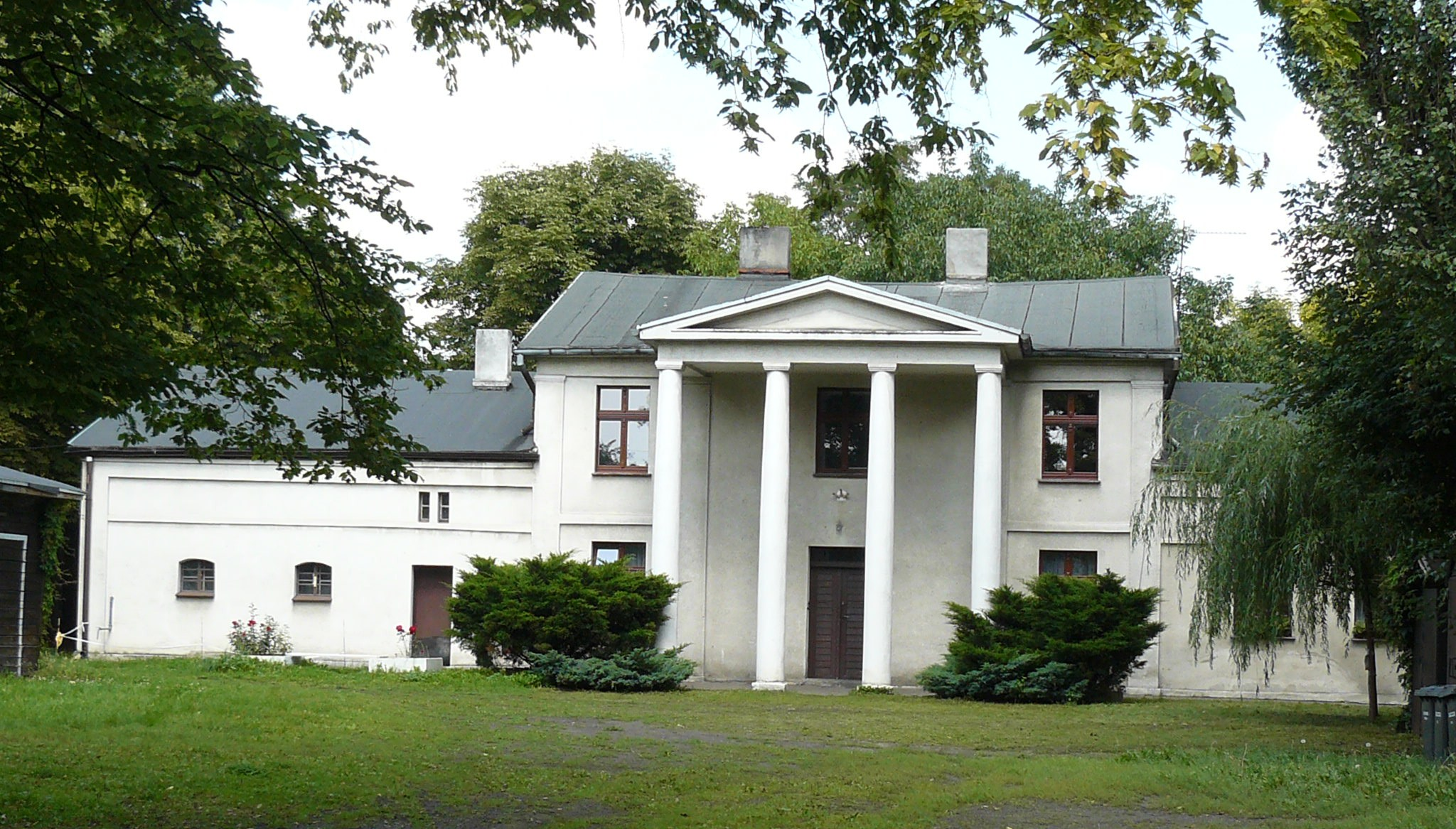 Ciesielczykow House, Poznan - Rataje.